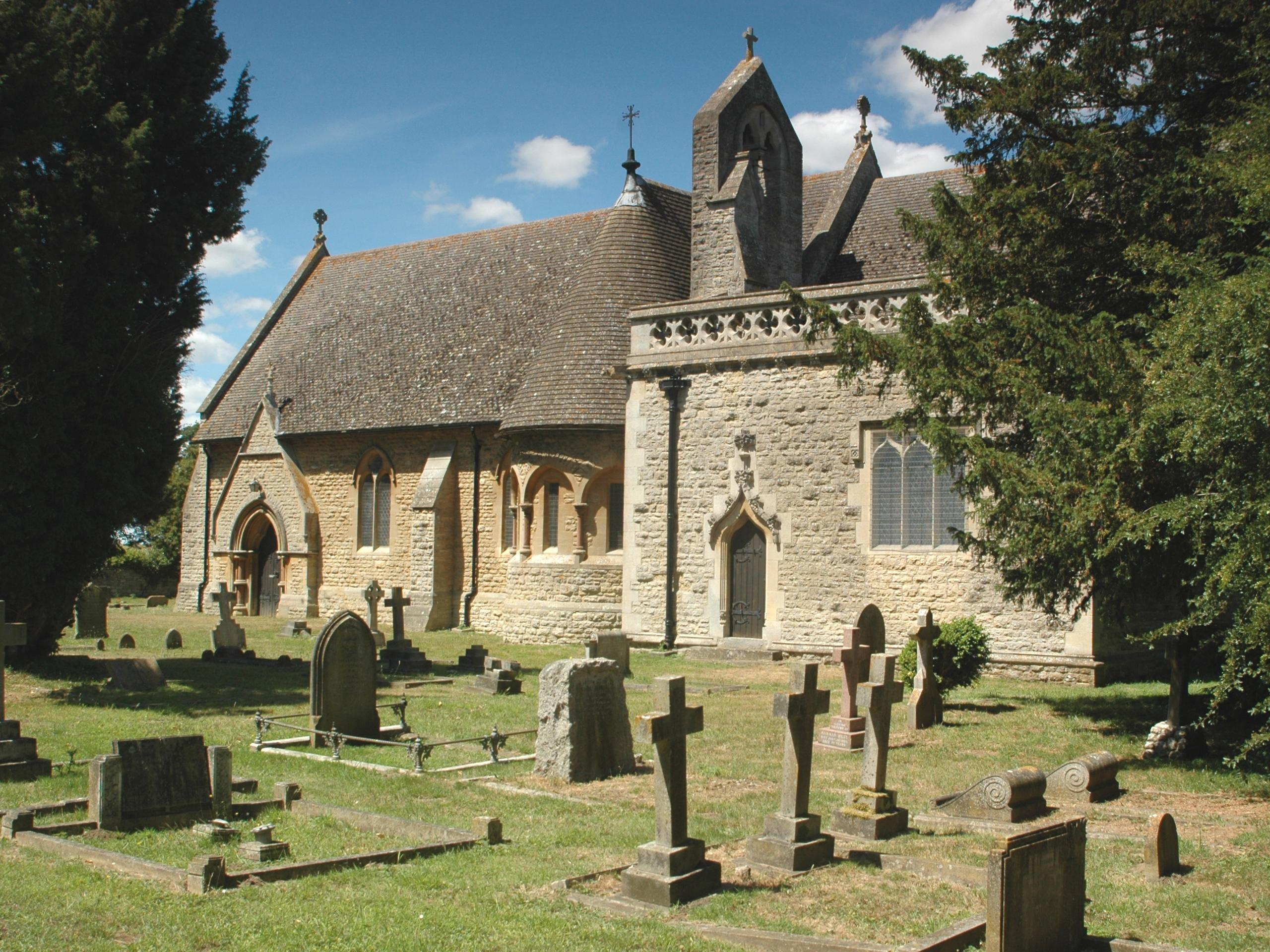 Former Church of England parish church of All Saints, Nuneham Courtenay, Oxfordshire, designed by Clapton Crabb Rolfe and built in 1872–74